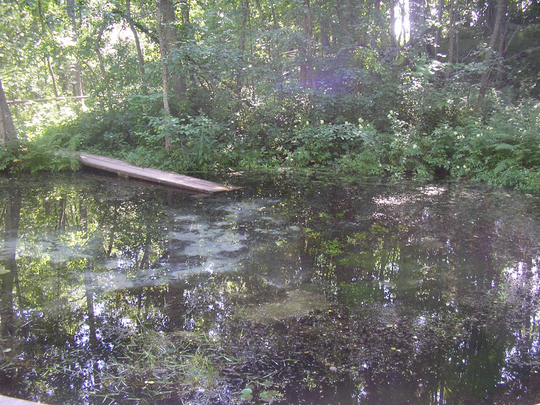 Runeberg Spring in Ruovesi[1].